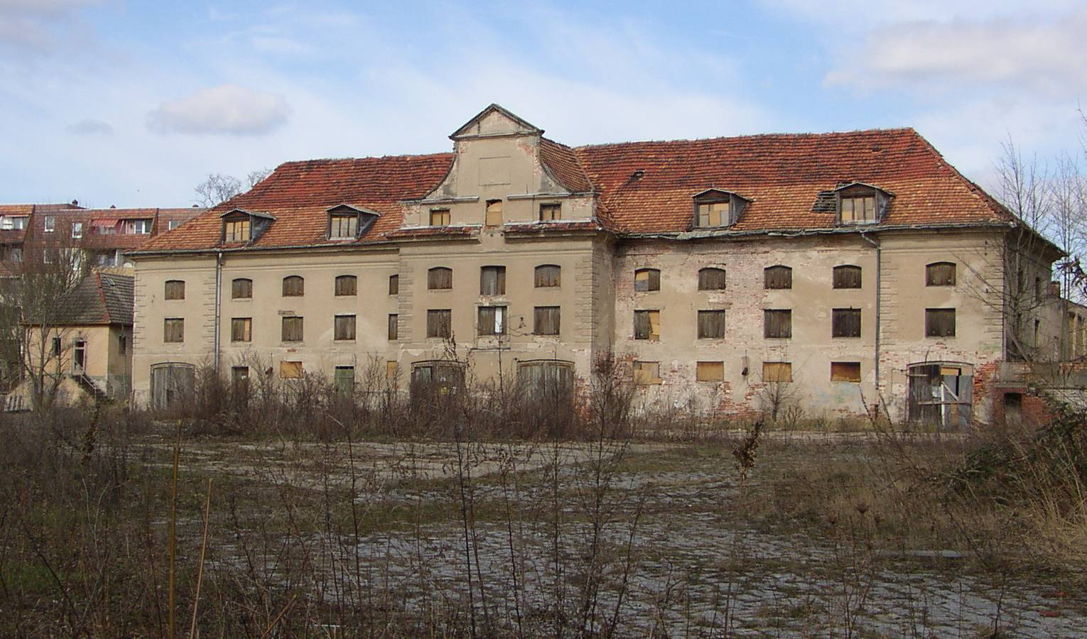 Palace in Fürstenwalde/Spree, Brandenburg, Germany.